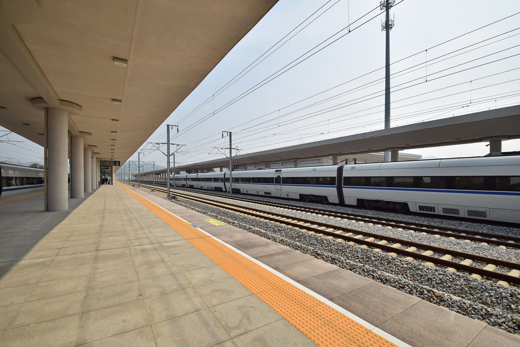 Chaoyang Railway Station, Xiamen-Shenzhen High-Speed Railway